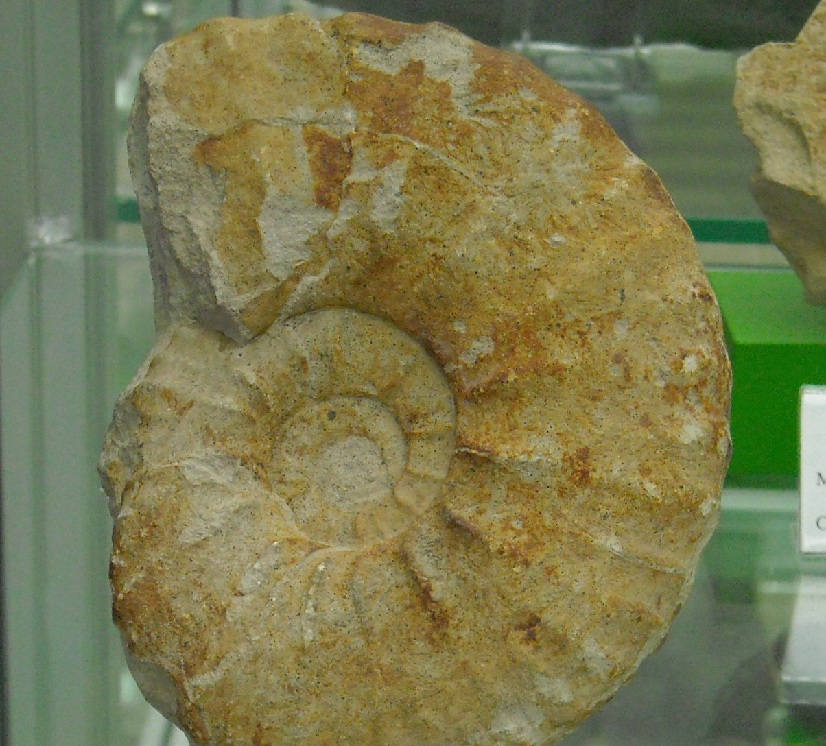 Crop of file in filename